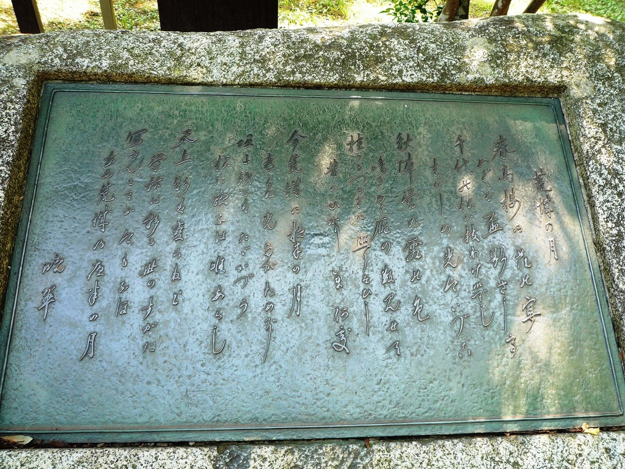 Poetic tablet of Moonlit castle ruins at Sendai Castle(Lyric by Bansui Doi)